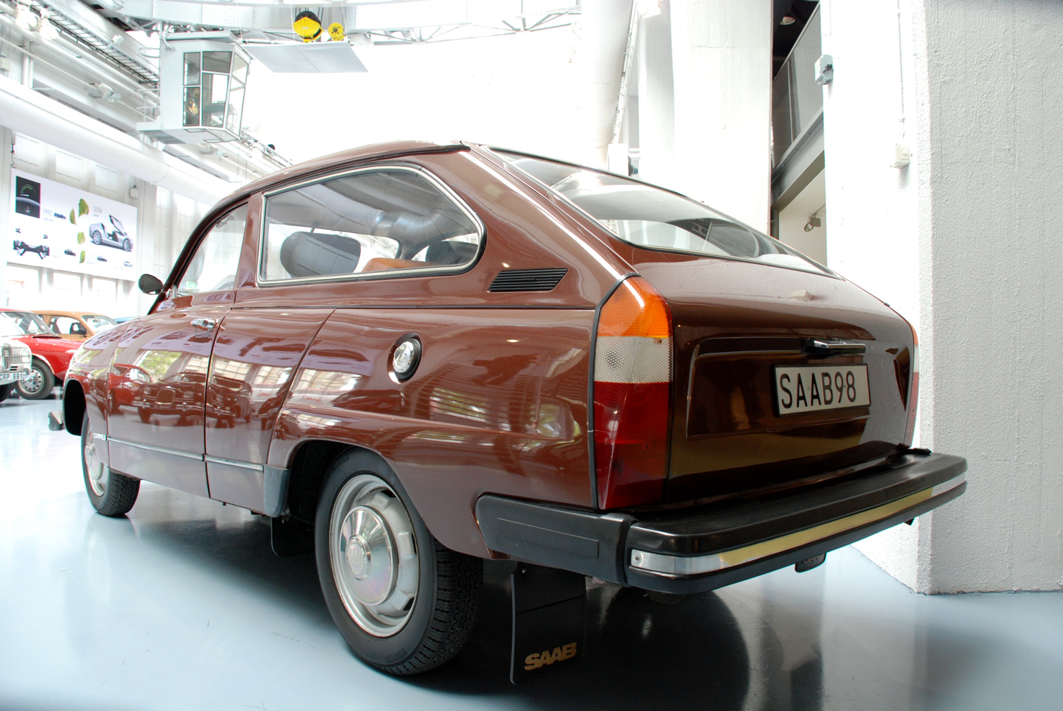 Saab 98 as on display may 08 in the Saabmuseum in Trollhättan